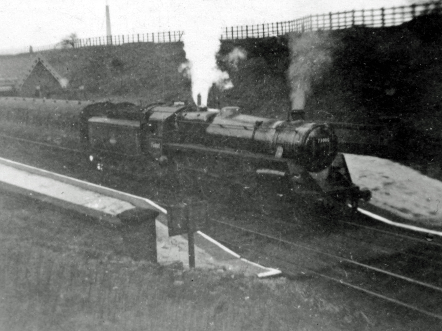 A BR Class 5MT 4-6-0 73000 at Heaton Mersey railway station whilst hauling a stopping train from Derby to Manchester Central.